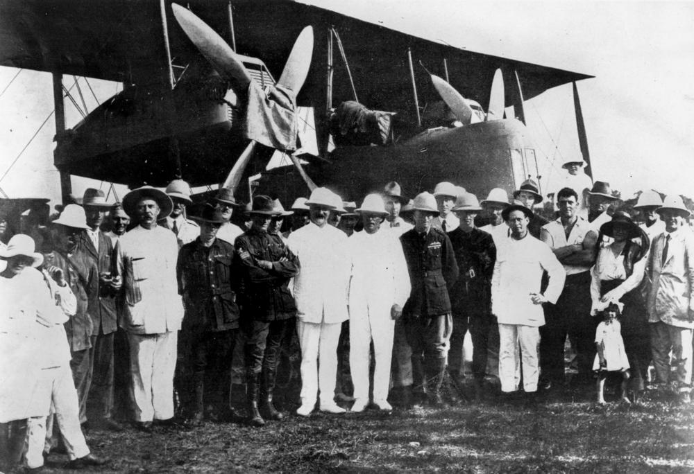 Captain Sir Ross Smith. Caption under photograph reads: 'An Historic Group. Captain Sir Ross Smith and party being received at Fannie Bay by the Administrator of the Northern Territory (Mr Staniforth Smith) and the Mayor of Darwin (Alderman Toupen)' (Description taken from The Queenslander, 10 January 1920).